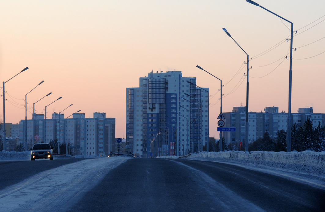 Kogalym , Surgut District, Khanty-Mansi Autonomous Okrug, Russia